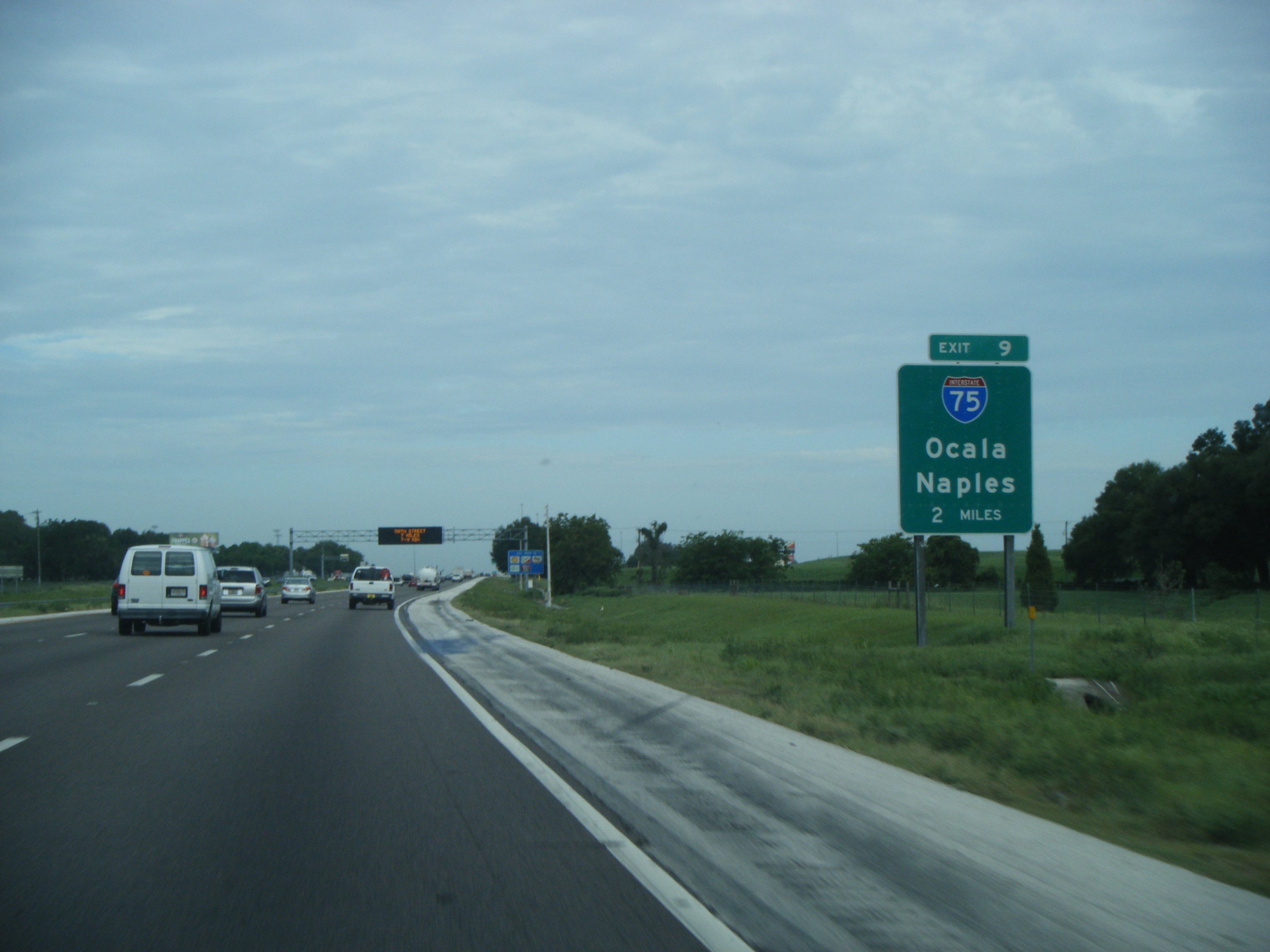 Westbound Interstate 4 two miles from the interchange with Interstate 75 (exit 9) in Mango, Florida